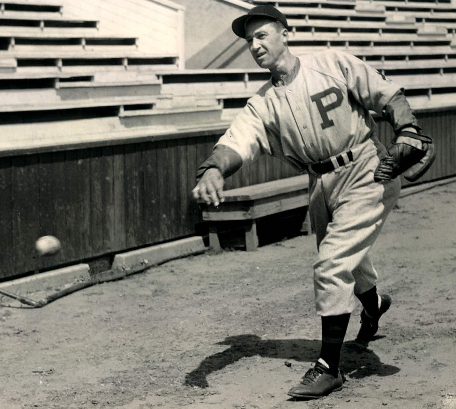 Professional baseball player Ad Liska